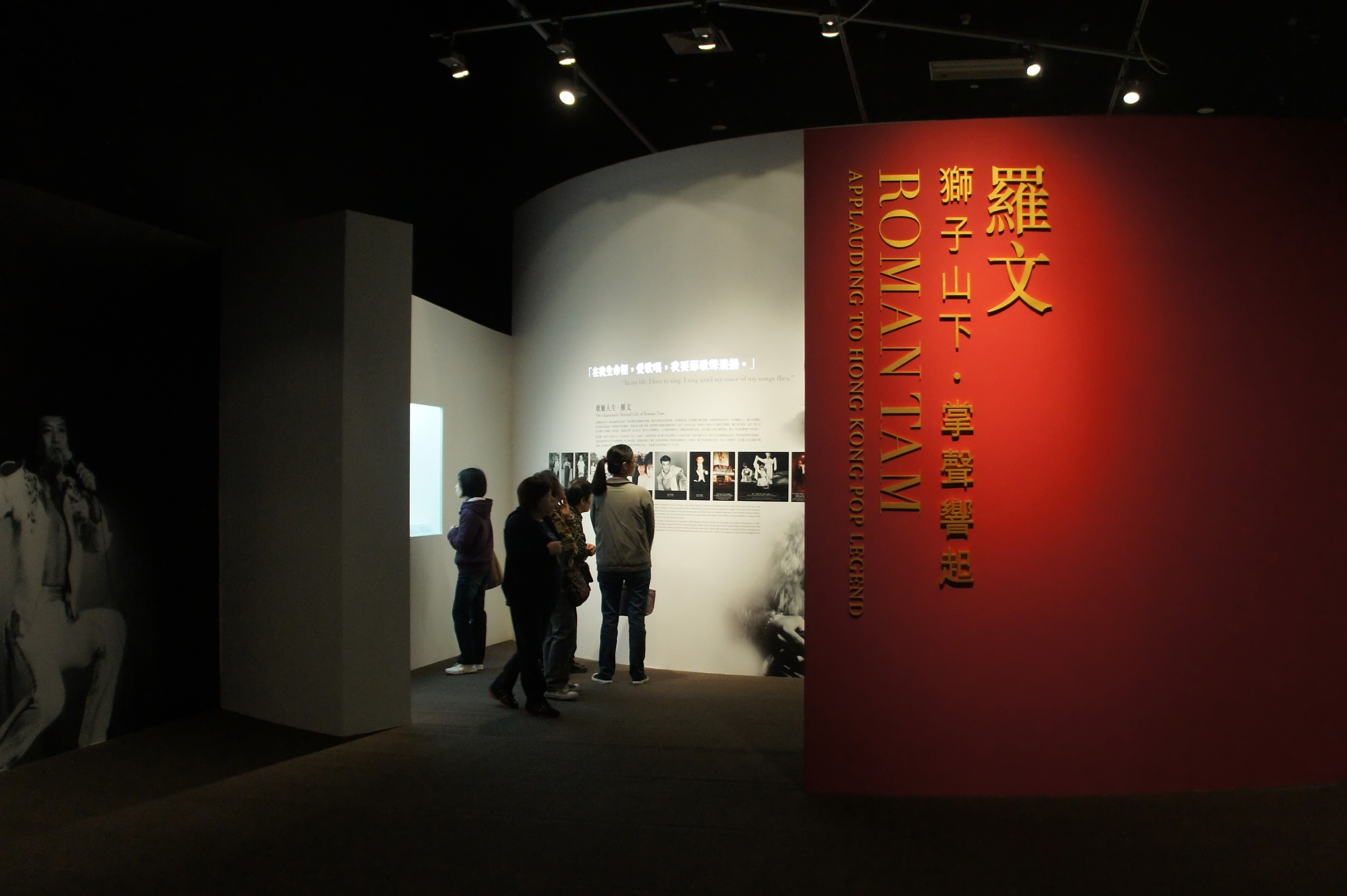 Hong Kong Heritage Museum exhibition: Applauding to Hong Kong Pop Legend - Roman Tam. (21 December 2011 - 30 July 2012)